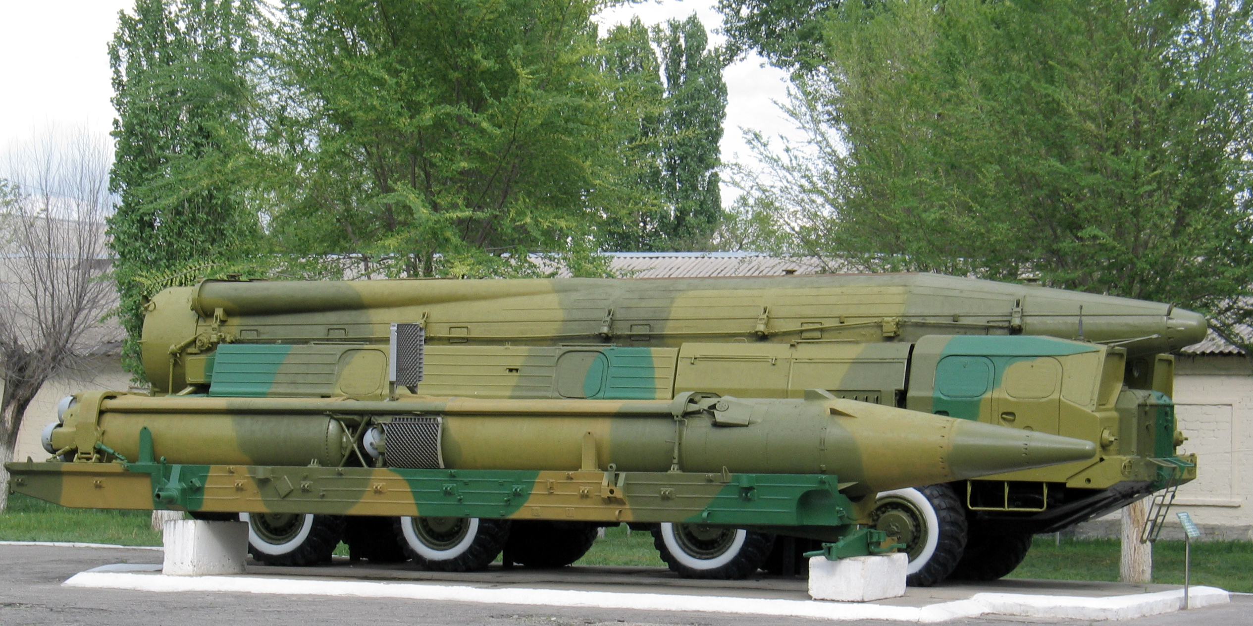 9P120 Transporter-Erector-Launcher and 9M76 rocket of 9K76 «Temp-S» missile complex. Kapustin Yar museum in Znamensk, Russia.